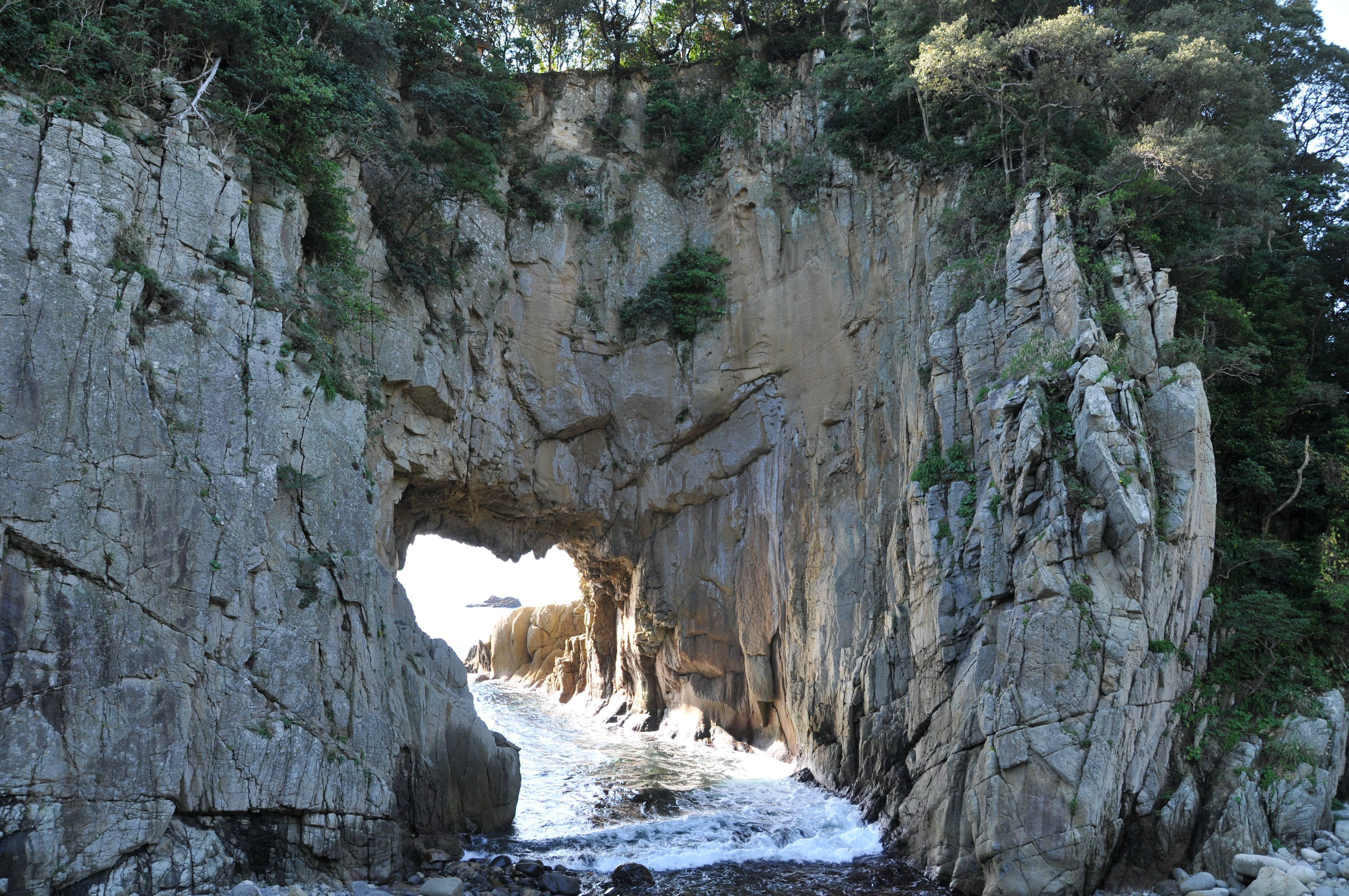 Hakusan-dōmon